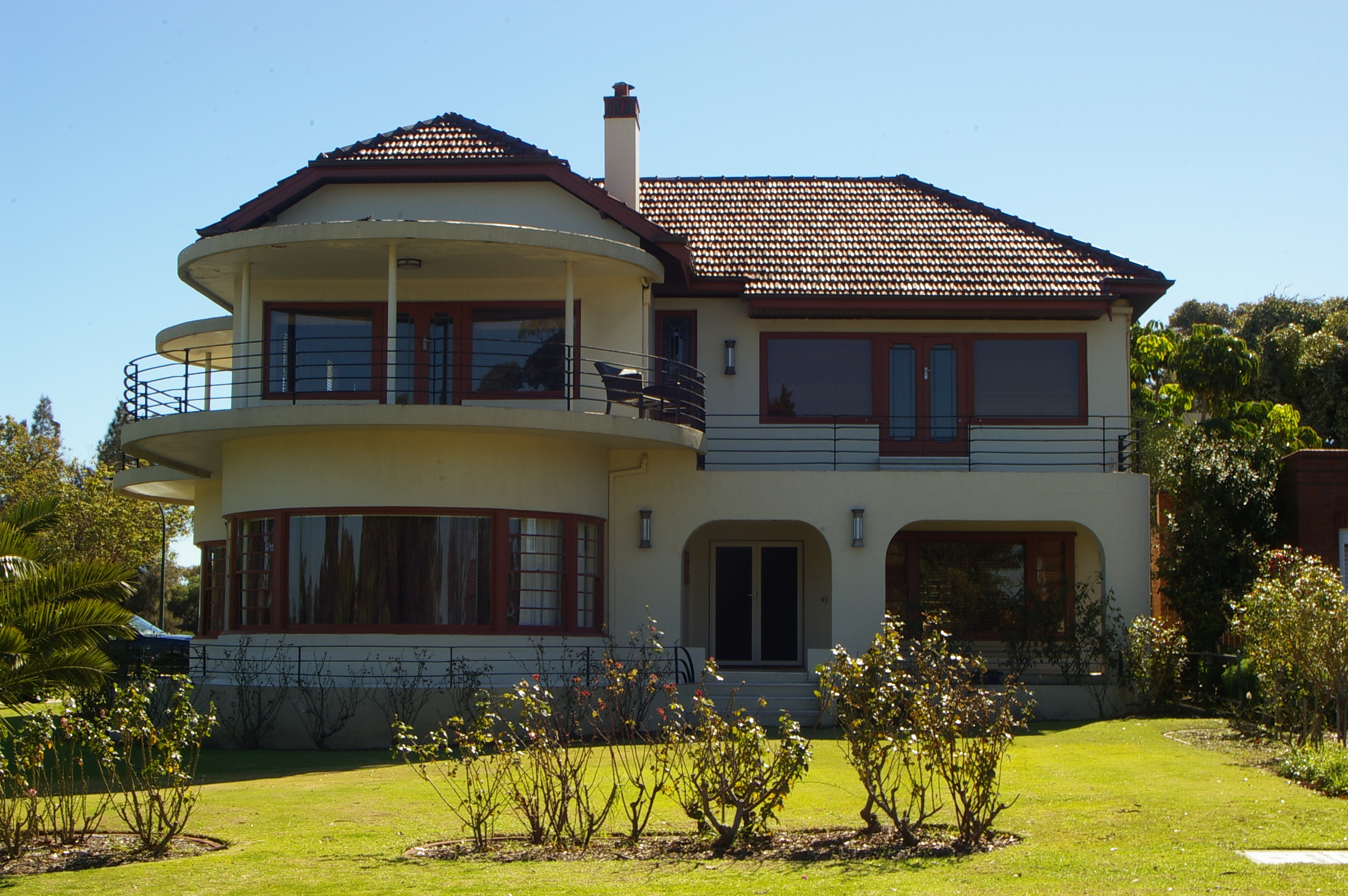 Kylemore residence, Jutland Pde Dalkeith built 1937-38, designed by Horace Costello Front view, from Jutland Pde